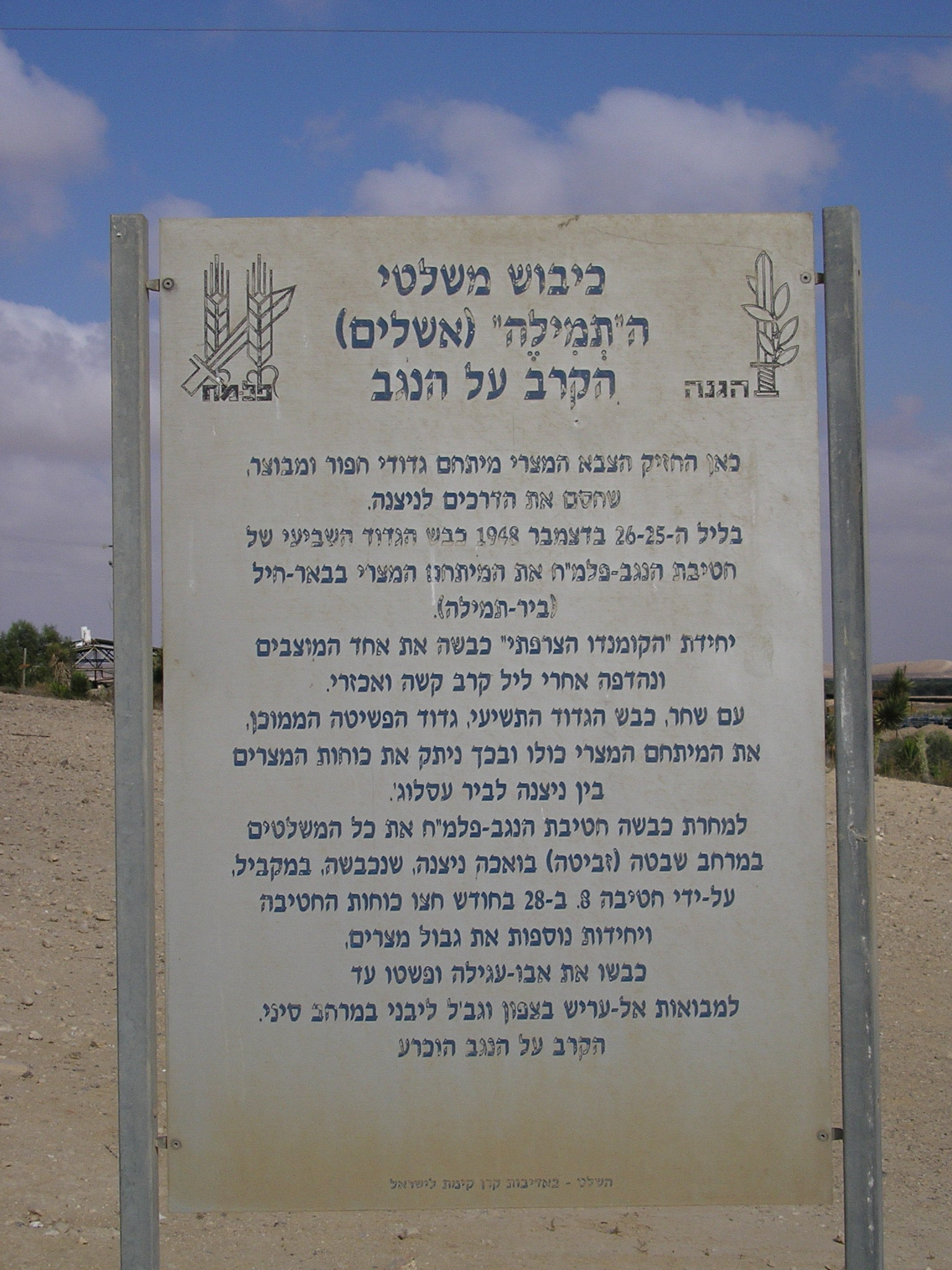 Monument to the French Commando near Ashalim